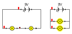 Diagram drawn by User:Theresa knott using "crocodile clips" education software Category:Electrical diagrams